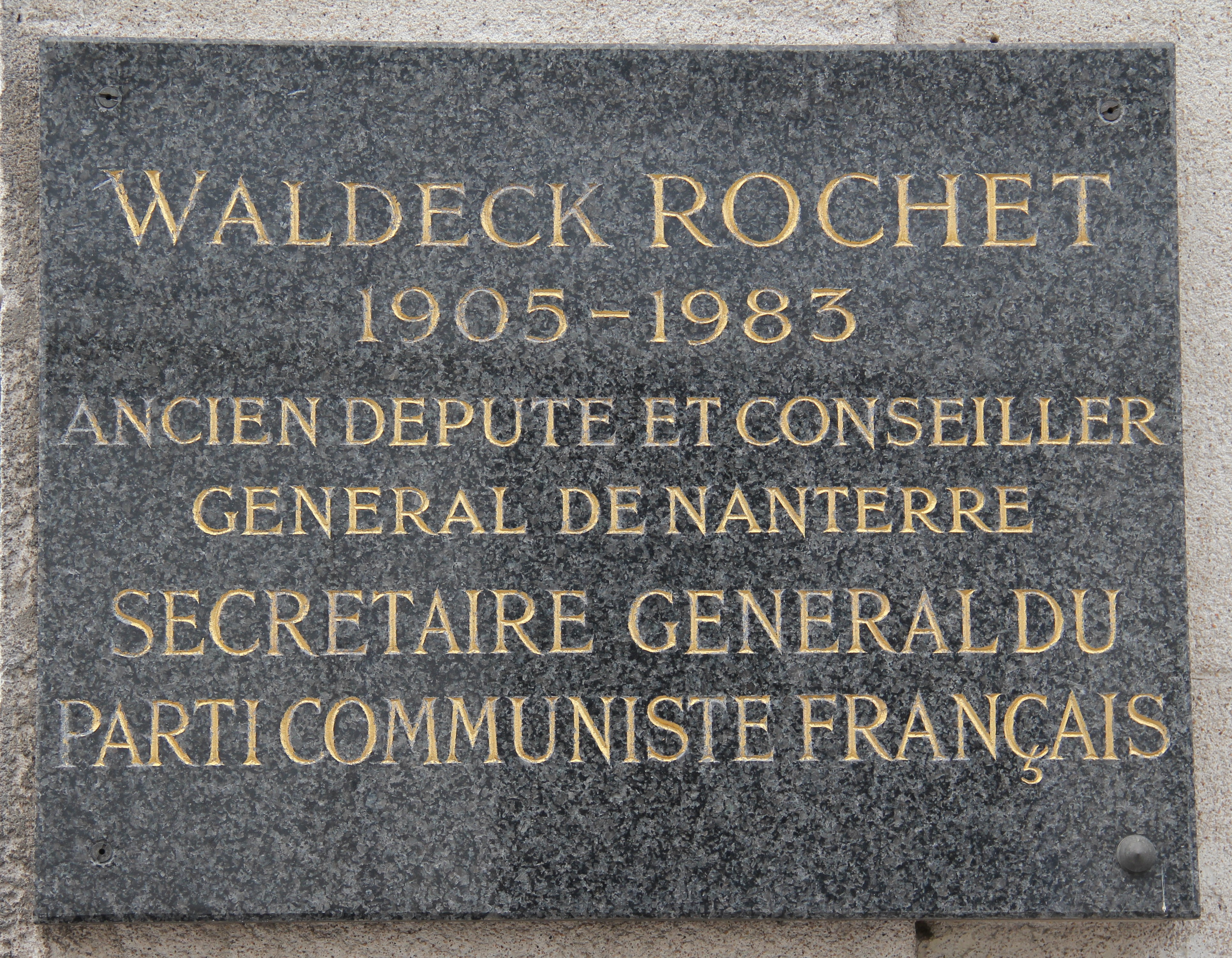 A plaque to former communist MP Waldeck Rochet, in Nanterre, Hauts-de-Seine, France.